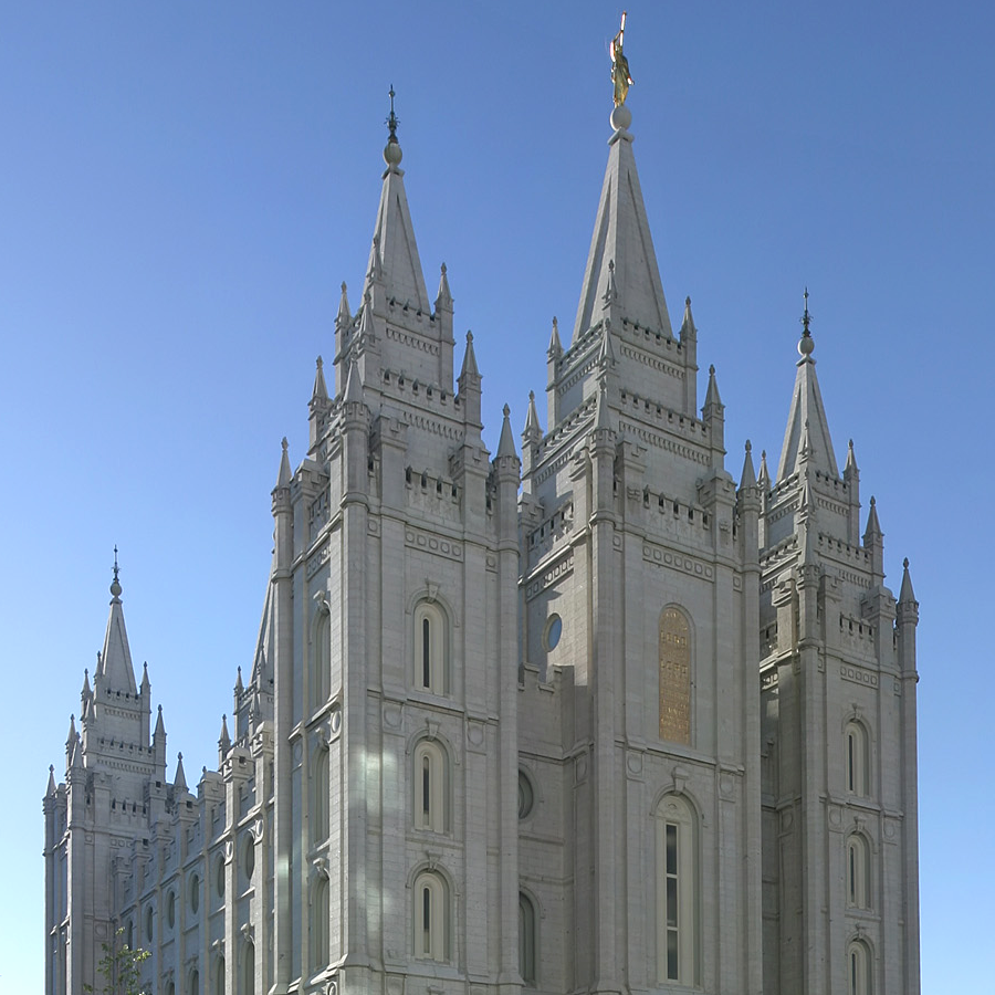 900x900 version of Image:Salt Lake Temple, Utah - Sept 2004.jpg for use on List of temples of The Church of Jesus Christ of Latter-day Saints. cc-sa/pd image edited by me - my contributions licensed under same conditions.